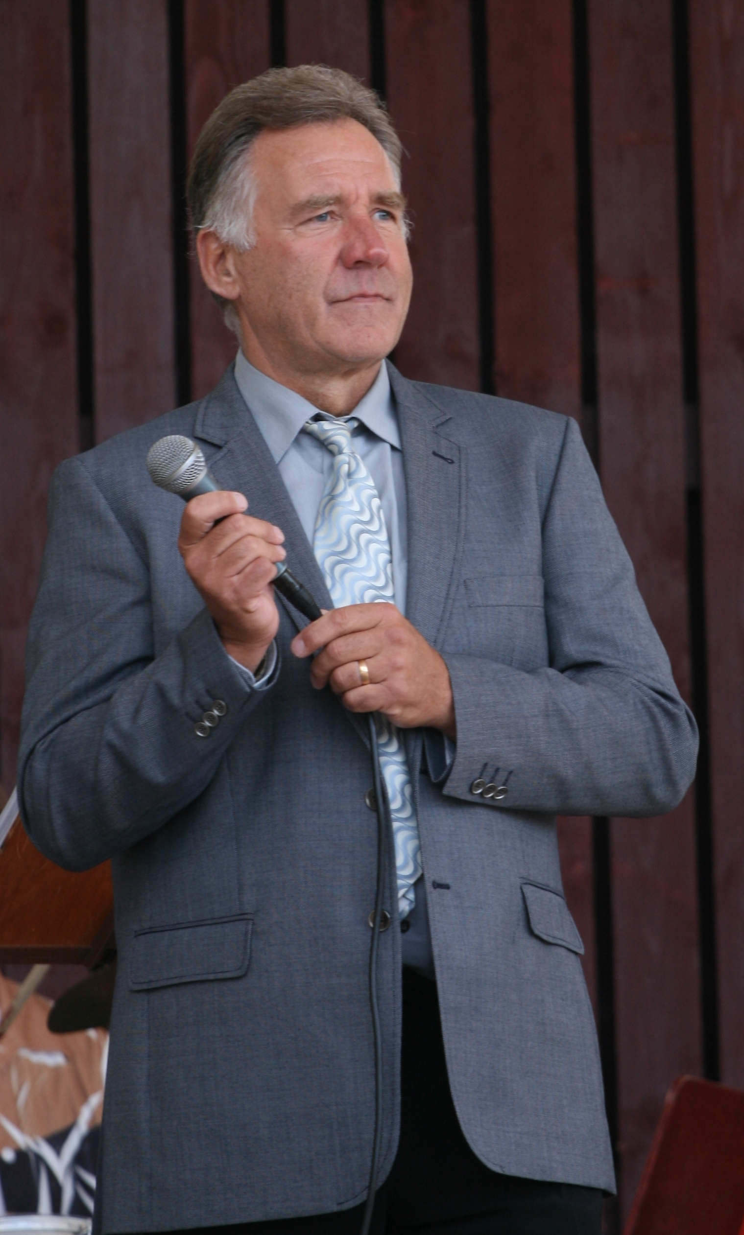 Risto Nevala finnish singer